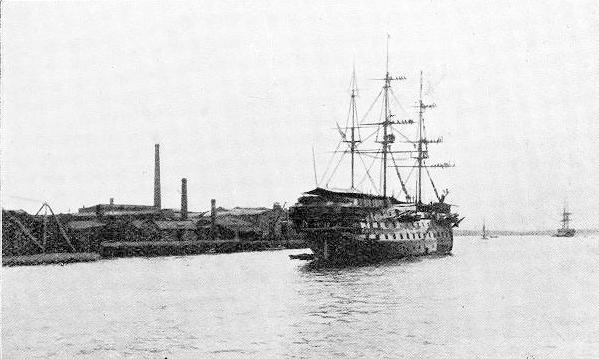 The Southern Cross leaving England for the Antarctic, August 1898. From Carsten Borchgrevink's expedition account: First on the Antarctic Continent, George Newnes, London 1901